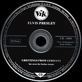 CD of Elvis Presley’s bootleg – Greetings from Germany (1998)